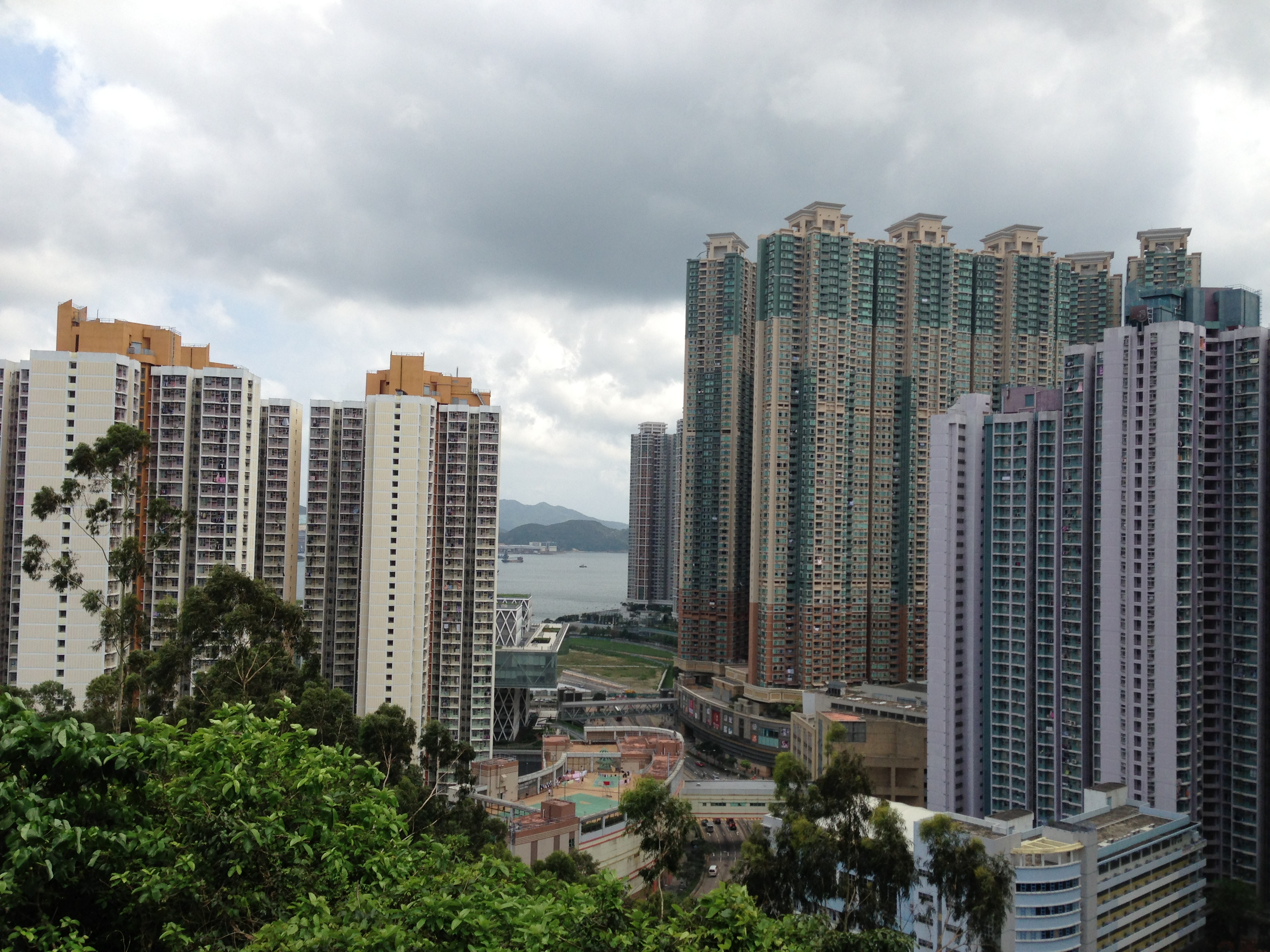 Tiu Keng Leng from Hillside